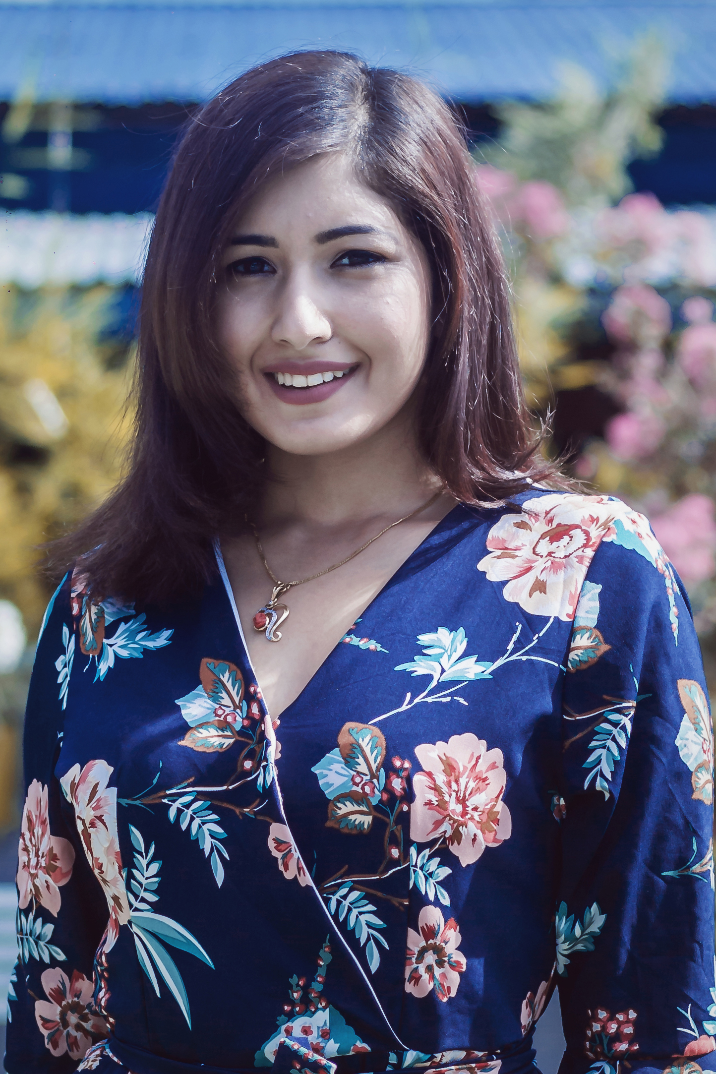 Aanchal Sharma is a model and actress of Nepal.